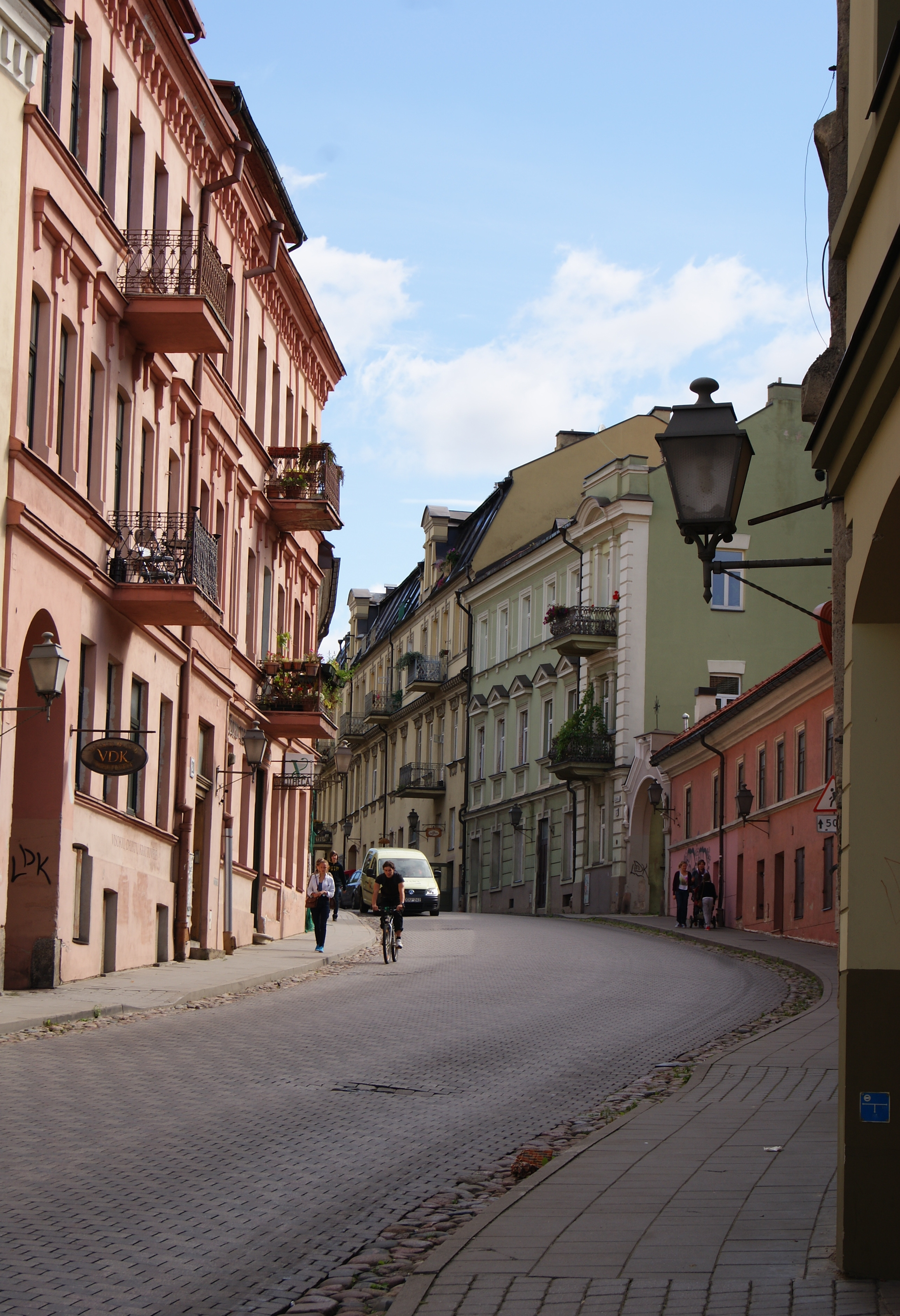 Read the story of this trip on !